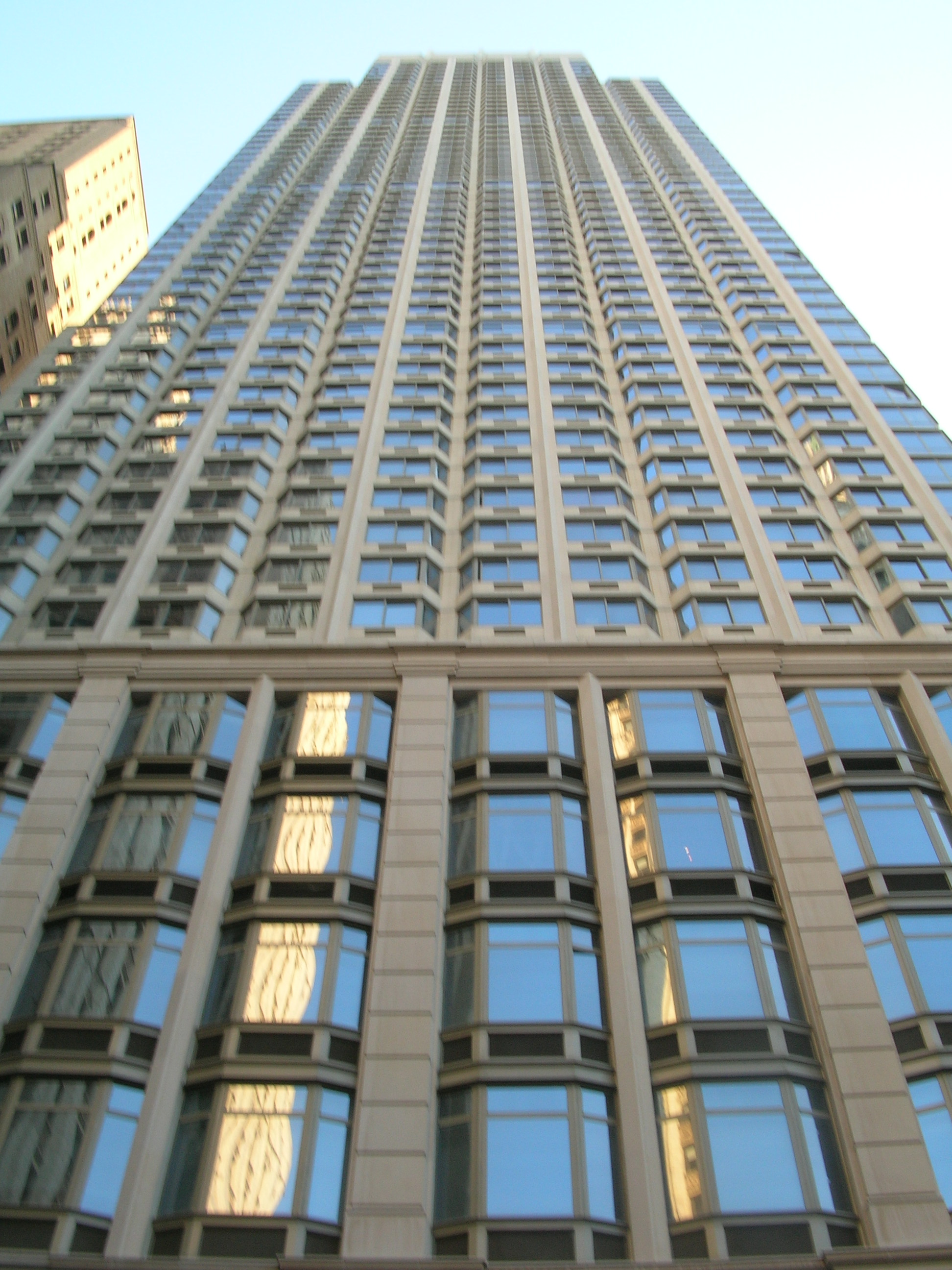 This photo is of Wikis Take Manhattan goal code H18, Barclay Tower.